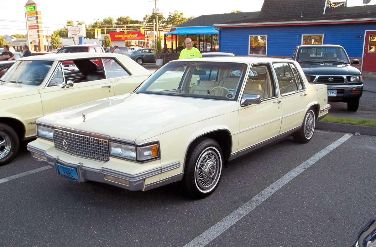 Spotted at the Rt.6 cruise night in Bristol, CT